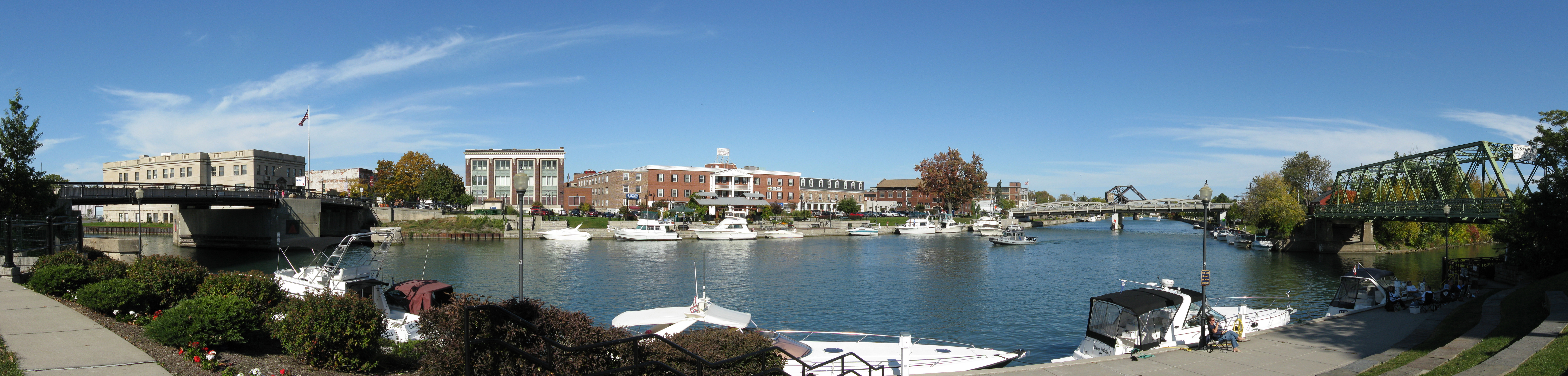 This is a panorama of Gateway Harbor, in city of Tonawanda (NY), taken on October 11, 2008.